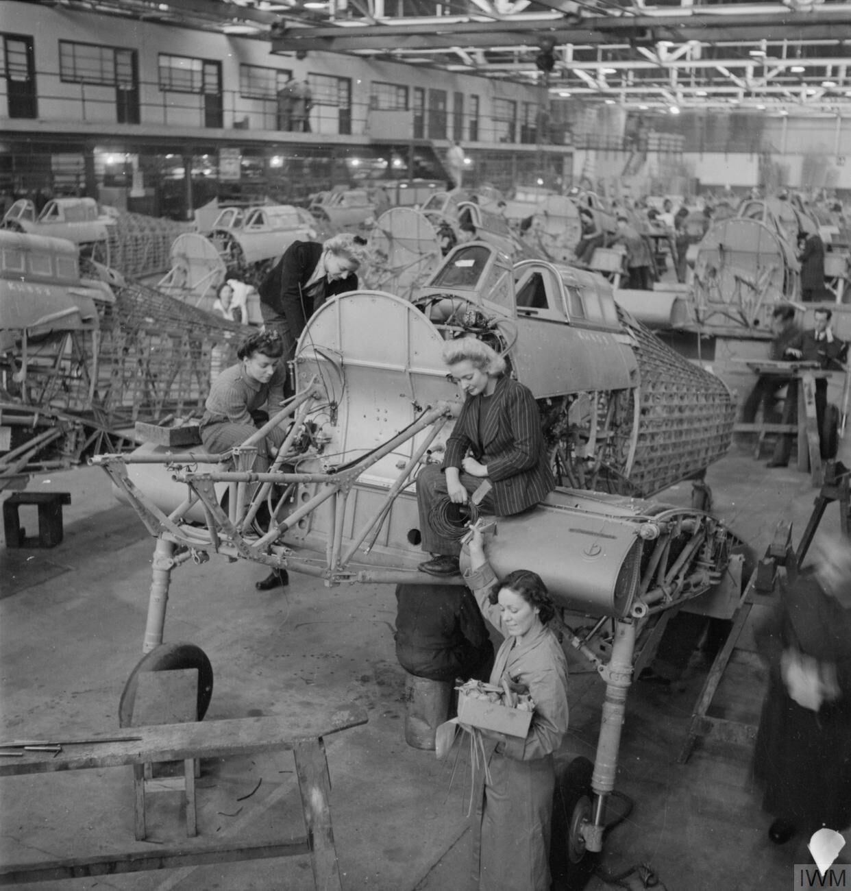 Hawker employees Winnie Bennett, Dolly Bennett, Florence Simpson and a colleague at work on the production of Hurricane fighter aircraft at a factory in Britain, in 1942.